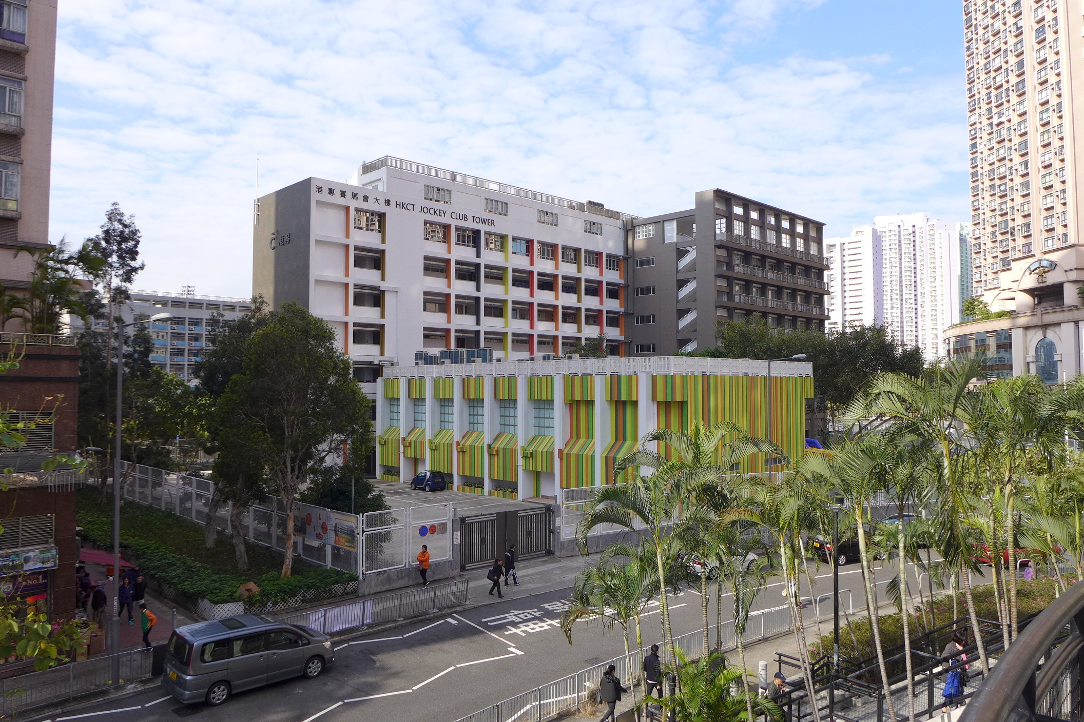 HKCT Jockey Club Tower